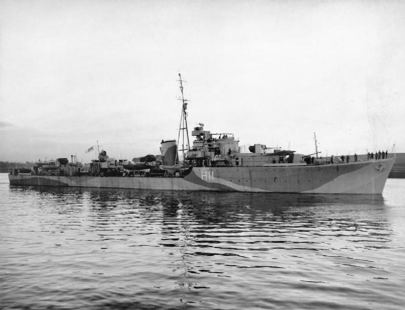 Photograph of British destroyer HMS Racehorse on the River Clyde on completion.